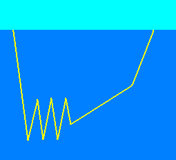 A saw-tooth dive profile